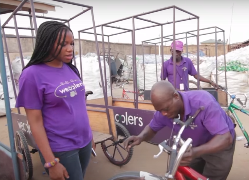 Bilikiss Adebiyi is the CEO of a Nigerian company which she co-founded. In collaboration with the city of Lagos they collect recycled rubbish, sort it, weigh it and then send back an SMS with points for the recycler. The company was founded in 2012 and is called Wecyclers